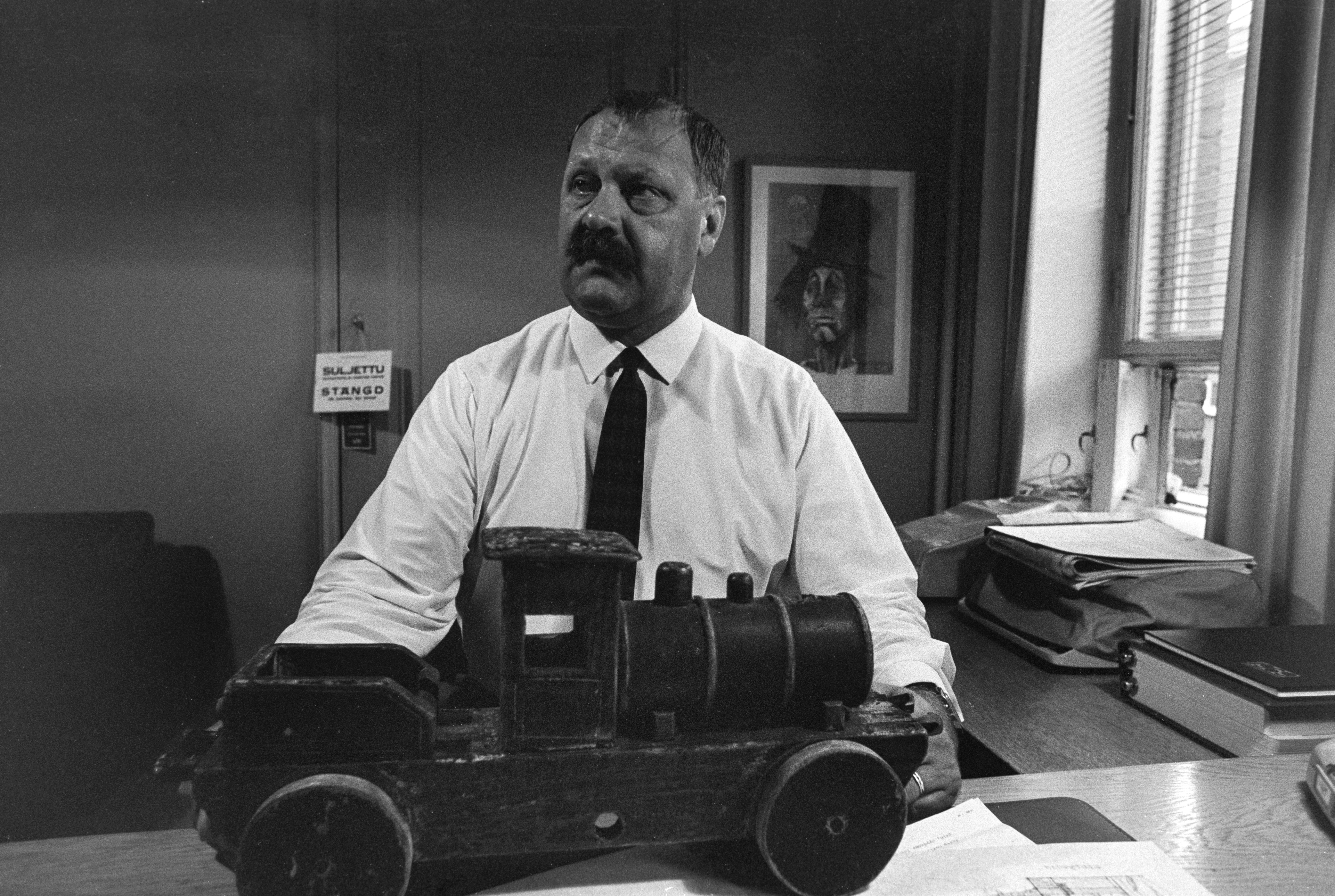 Photograph of the Finnish comedian Esko Olavi “Eemeli” Toivonen (1920–1987) with a toy vehicle.